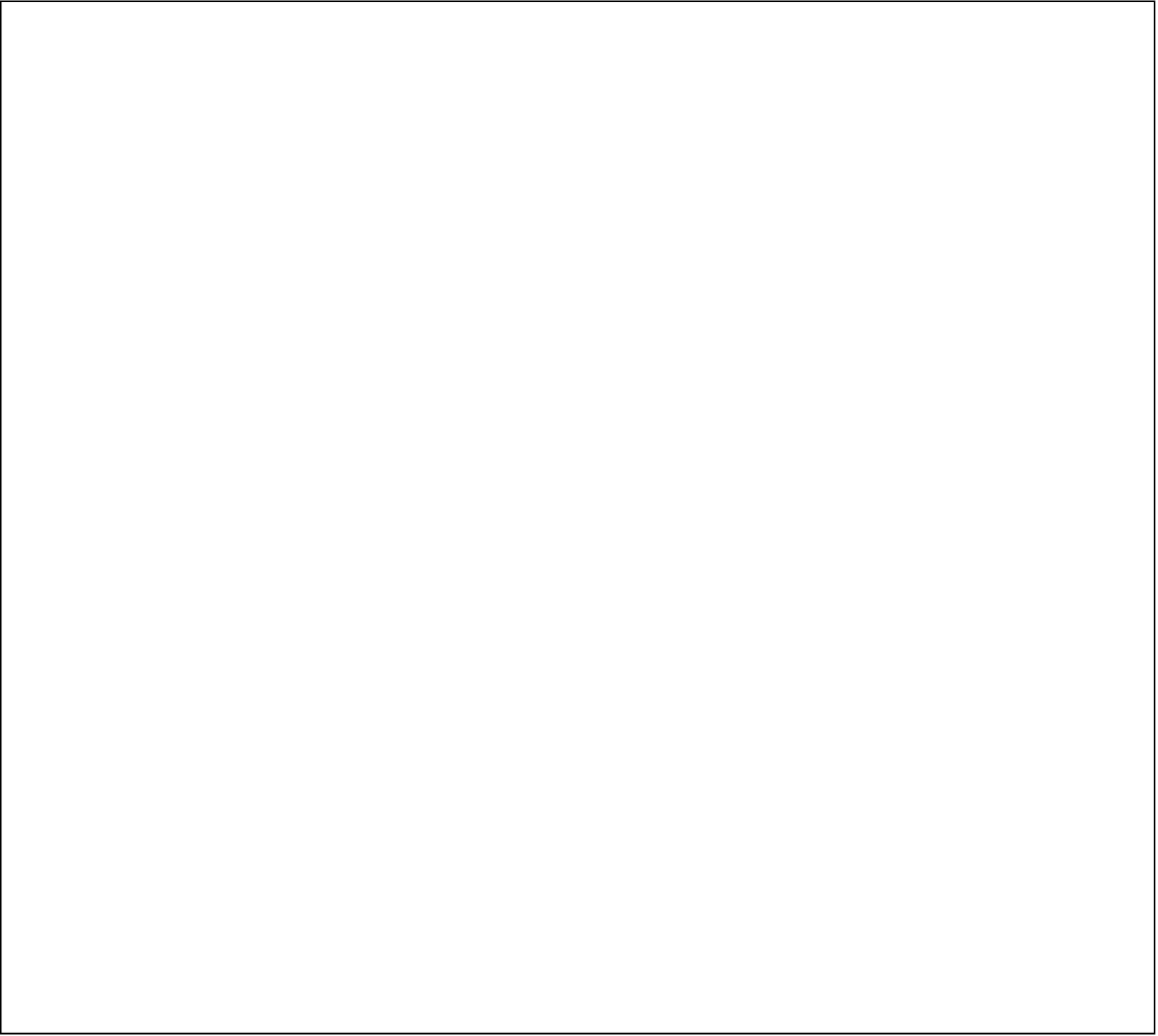 skali intensywności - prezentacja 1